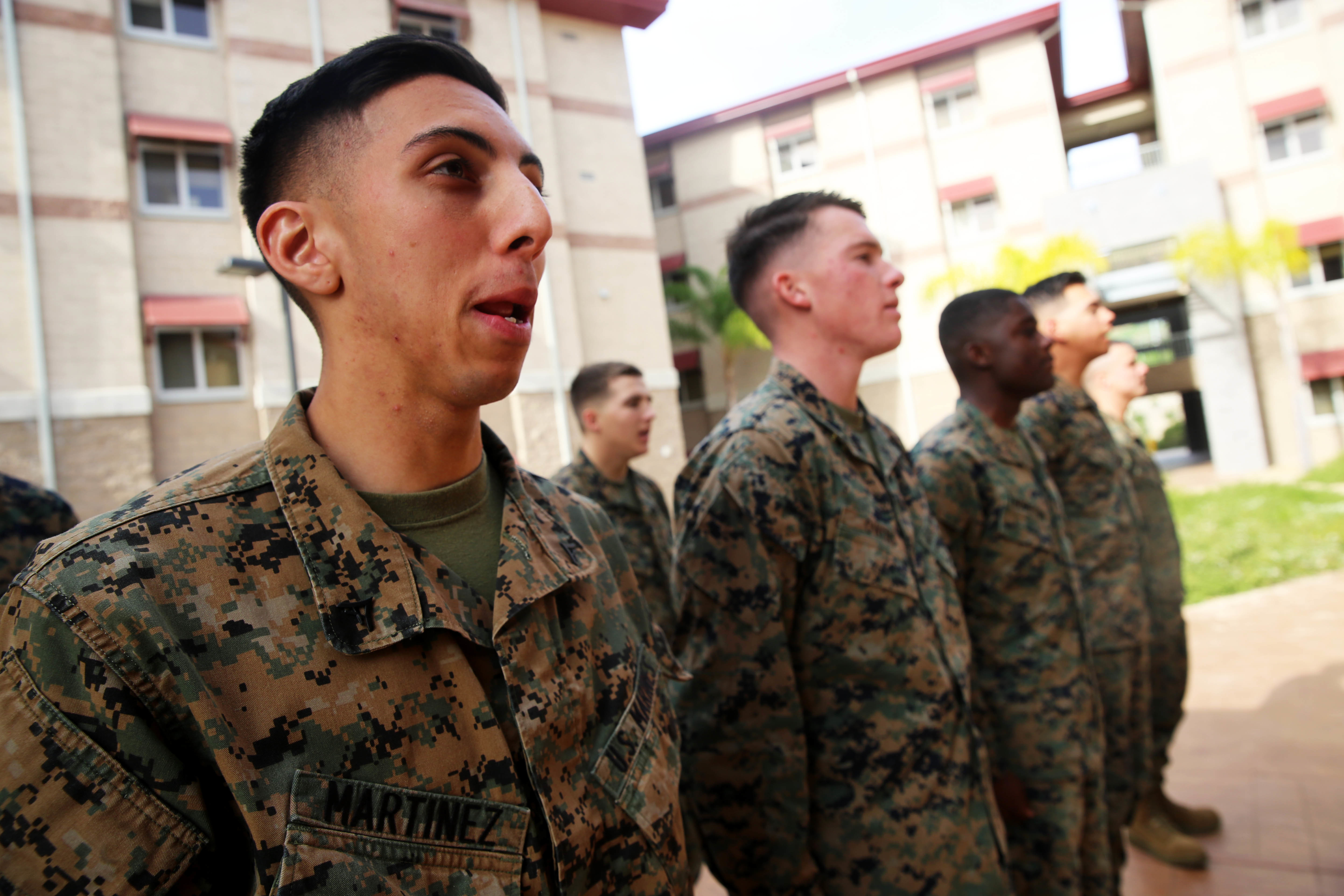 Marines sing the Marines' Hymn after a guided discussion during the Headquarters Battalion, 1st Marine Division Lance Corporal Leadership and Ethics Seminar, aboard Marine Corps Base Camp Pendleton, Calif., Jan. 27, 2016. Lance Corporal Leadership and Ethics Seminar recently became a mandatory requirement for junior Marines looking to become noncommissioned officers, and its resident curriculum supplements the previously required, online-only Leading Marines Marine Net course. Unit: 1st Marine Division